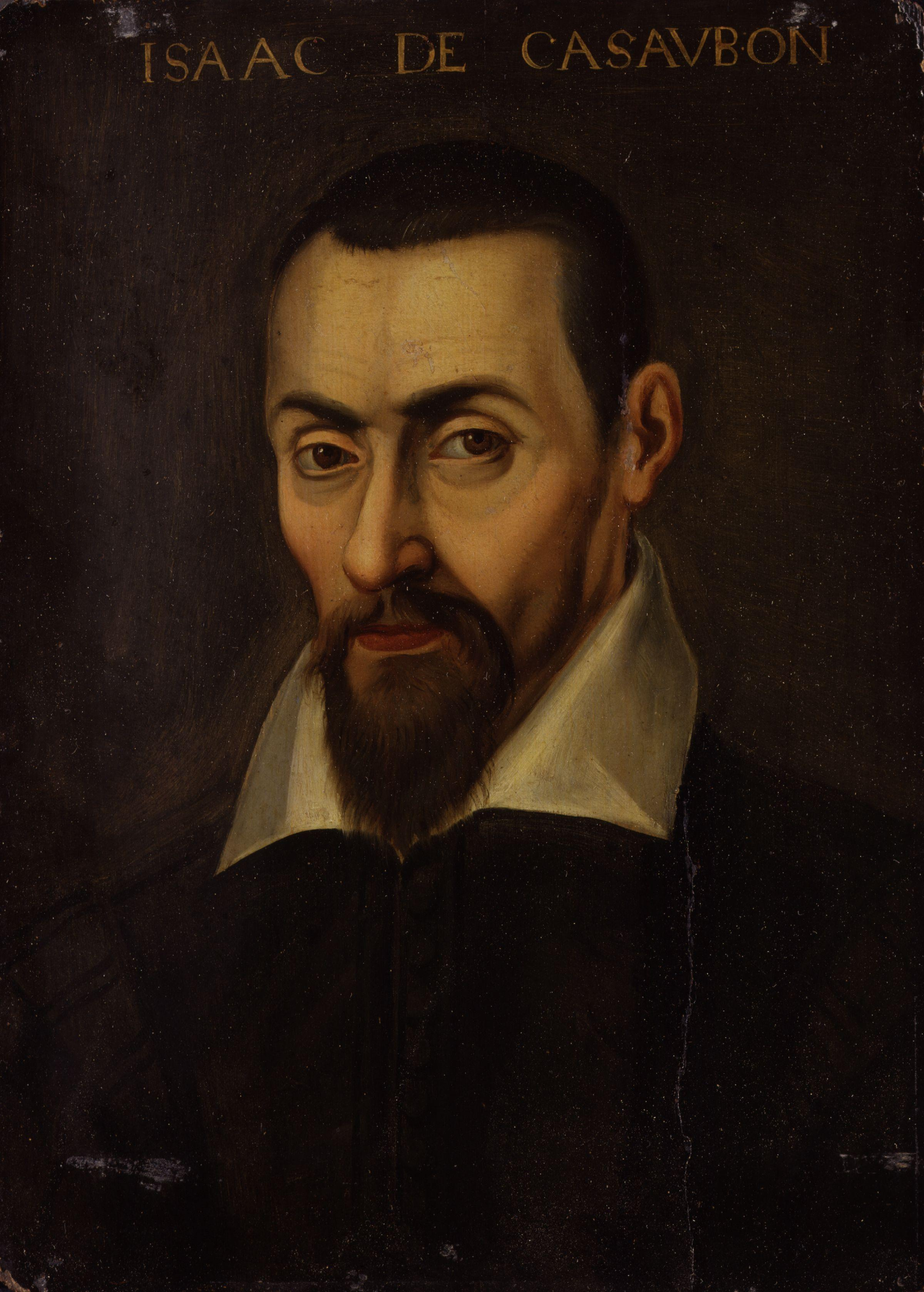 Isaac Casaubon, by unknown artist. All images in this batch are listed as "unknown author" by the NPG, who is diligent in researching authors, and was donated to the NPG before 1939 according to their website.